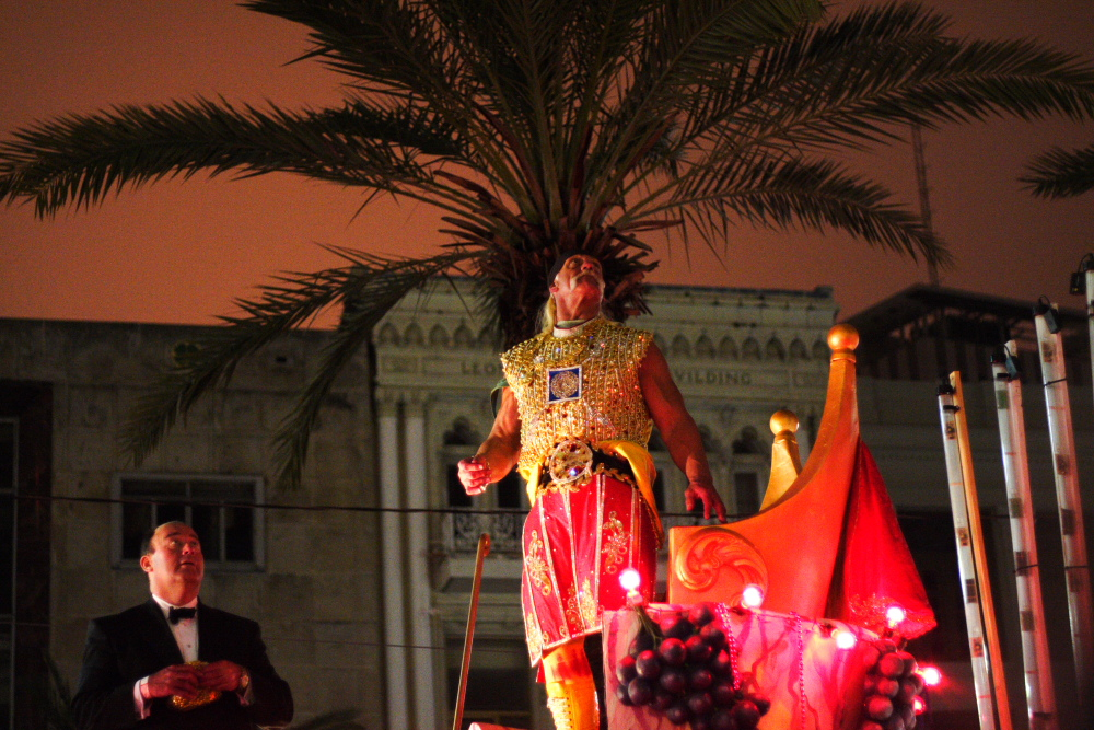 New Orleans Carnival: Hulk Hogan reigns as King of Baccus Parade